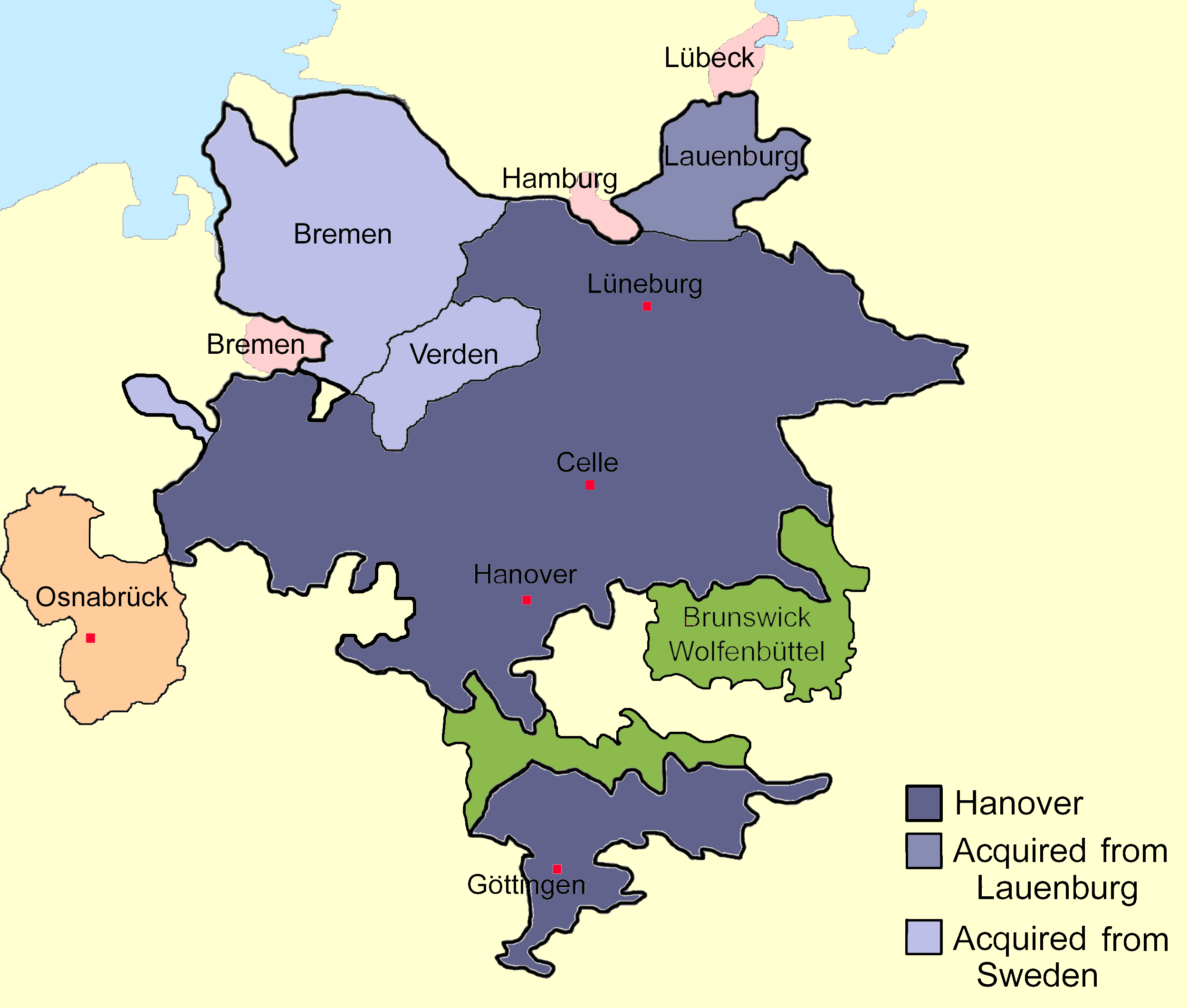 Sketch map of the state of Hanover, c.1720 showing territorial acquisitions and some neighbouring states and imperial cities; drawn in Adobe Photoshop by hand using a pen tablet.